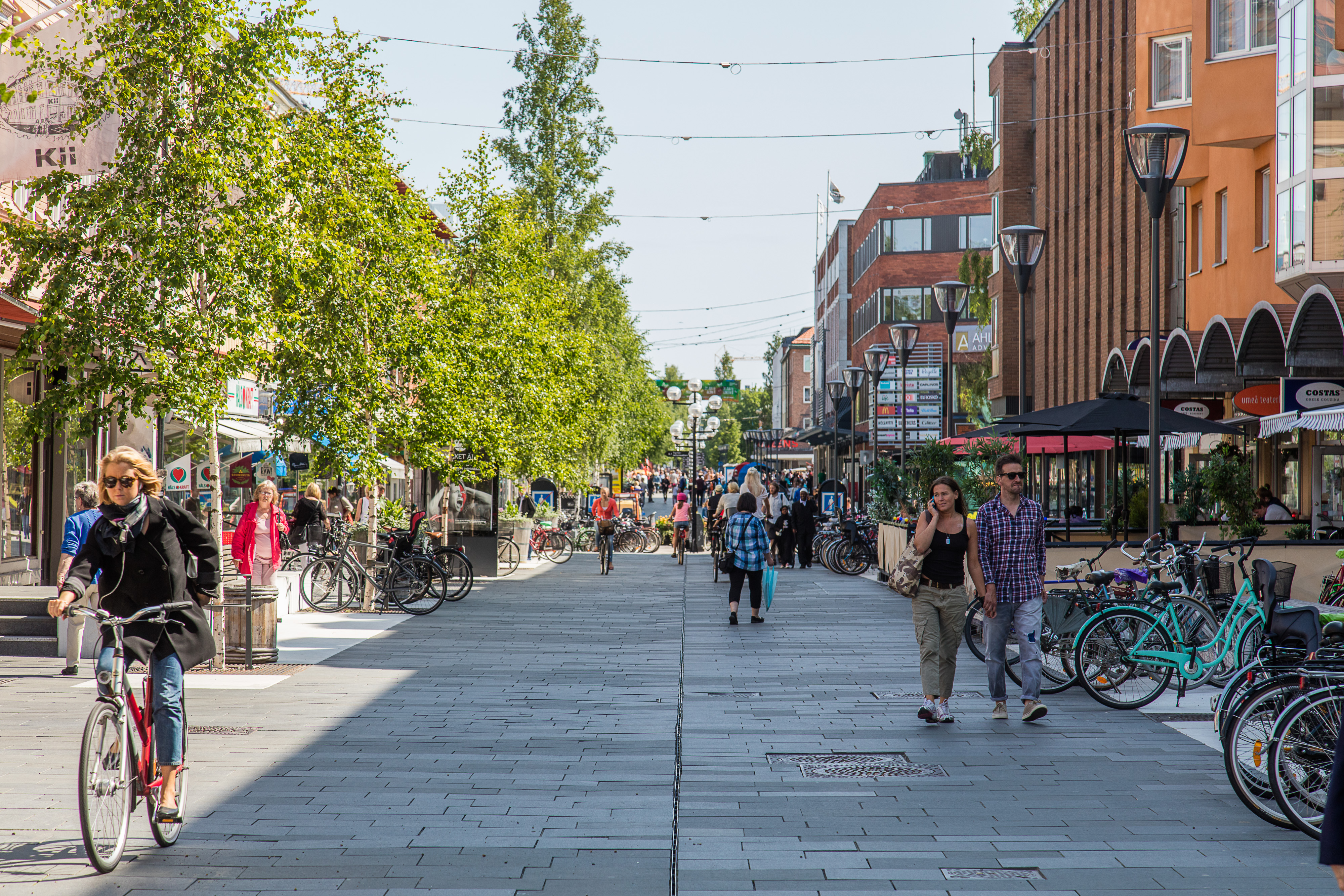 Kungsgatan in Umeå, summer 2015